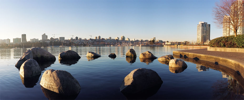 Tide Sculpture in David Lam Park, Vancouver